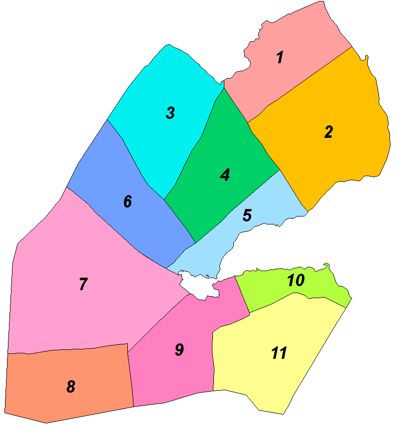 Districts of Djibouti based on Image:Djibouti districts.png